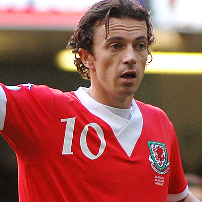 Football player Simon Davies in action for Walea against Slovakia during the EURO 2008 Qualifying campaign